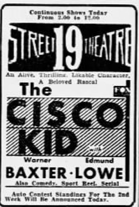 Nineteenth Street Theater Ad - 12 Dec MC - Allentown, PA - for the American western film The Cisco Kid (1931).